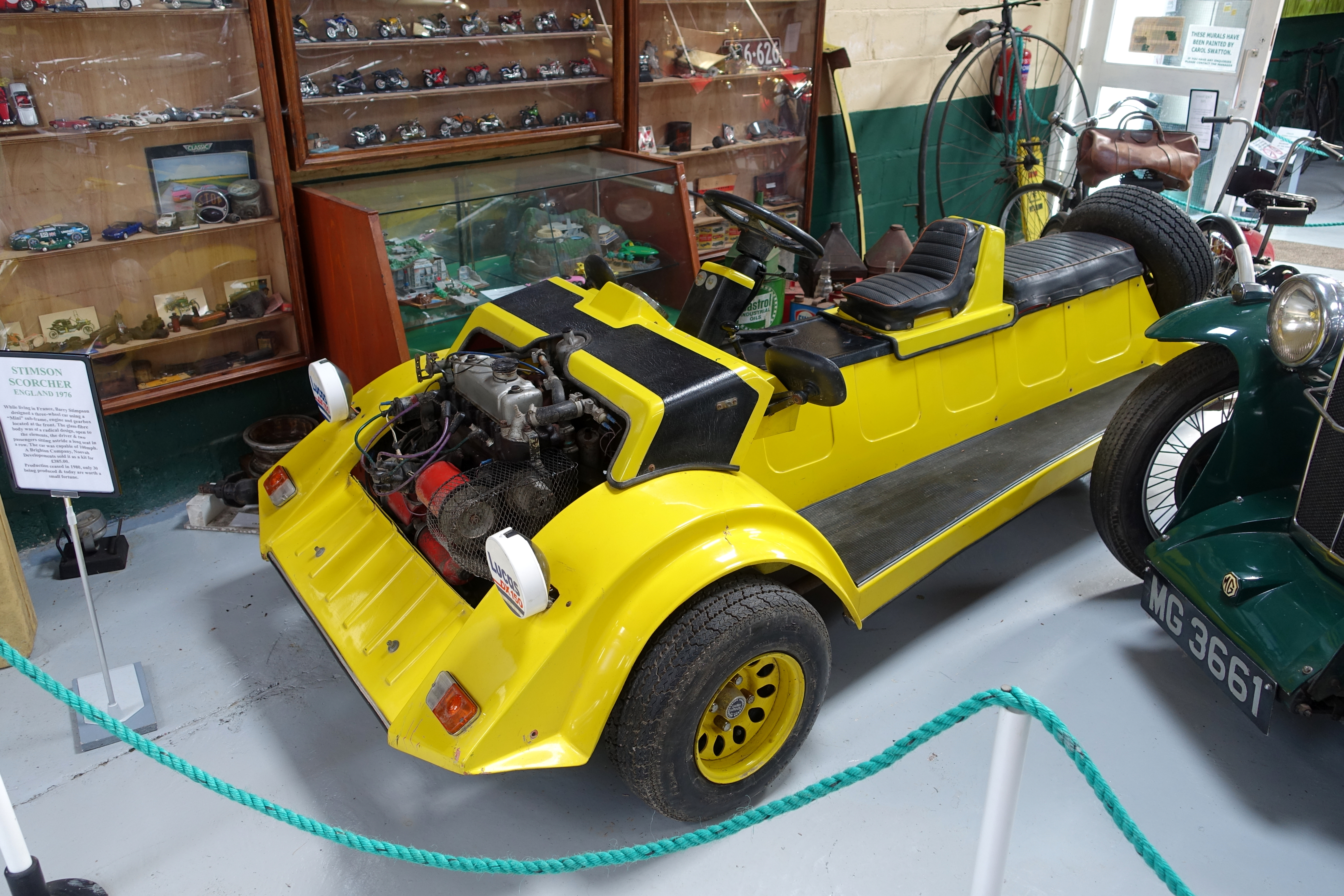 Automobile exhibited in the Bentley Wildfowl and Motor Museum - Halland, East Sussex, England.